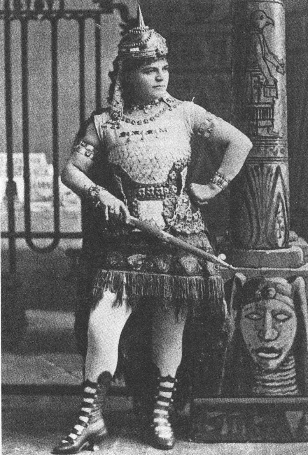 Rossini - Semiramide - Sofia Scalchi as Arsace - Metropolitan Opera New York 1894